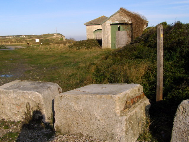 The Old Engine Shed These neglected buildings are the Old Engine Sheds for the cable-operated Admiralty Incline tramway that used to run down to the Navy Dockyard. The Grade II listed building has not been used since the 1920s. There is a proposal to convert the shed into a visitor centre with interpretive displays, a cafe and so on.